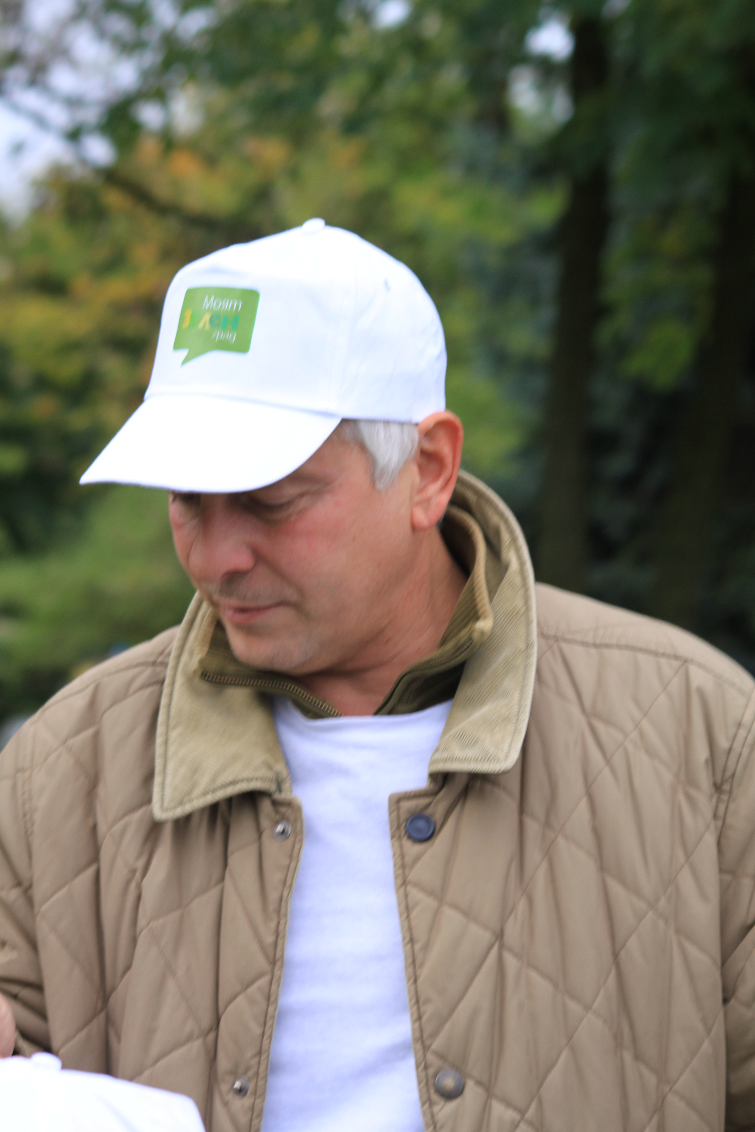 Stanislav Slanev-Stenly - bulgarian pop-singer